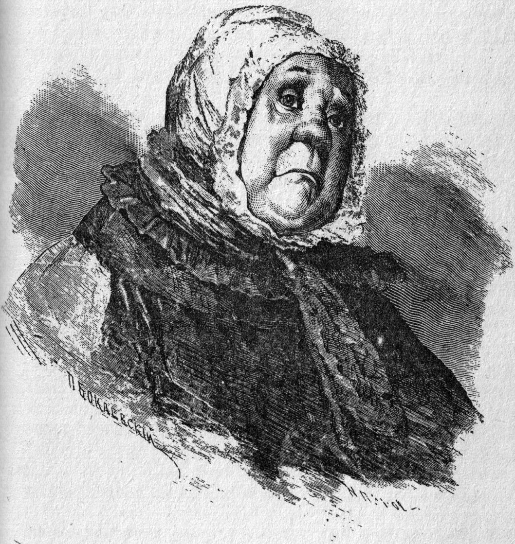 Korobotchka. Illustration for Nikolai Gogol's Dead Souls.